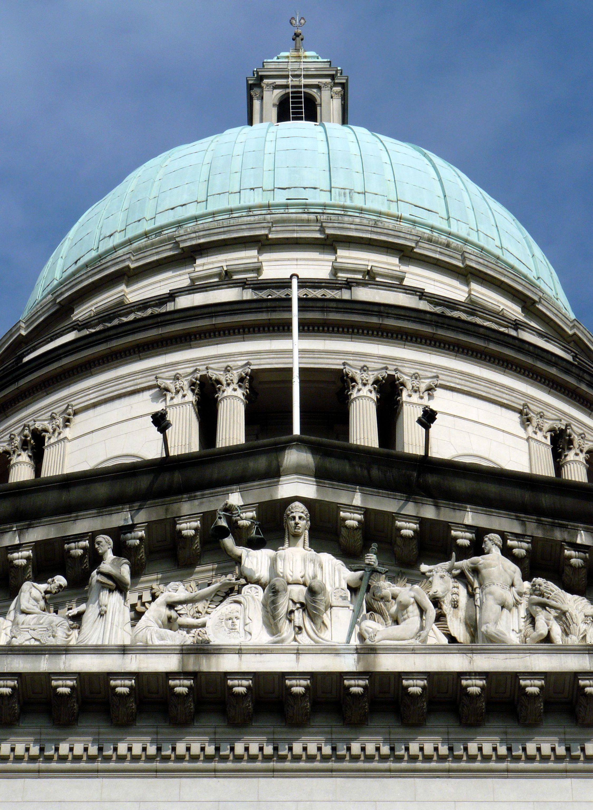 Rodolfo Nolli's sculpture Allegory of Justice on the tympanum of the Old Supreme Court Building, Singapore.